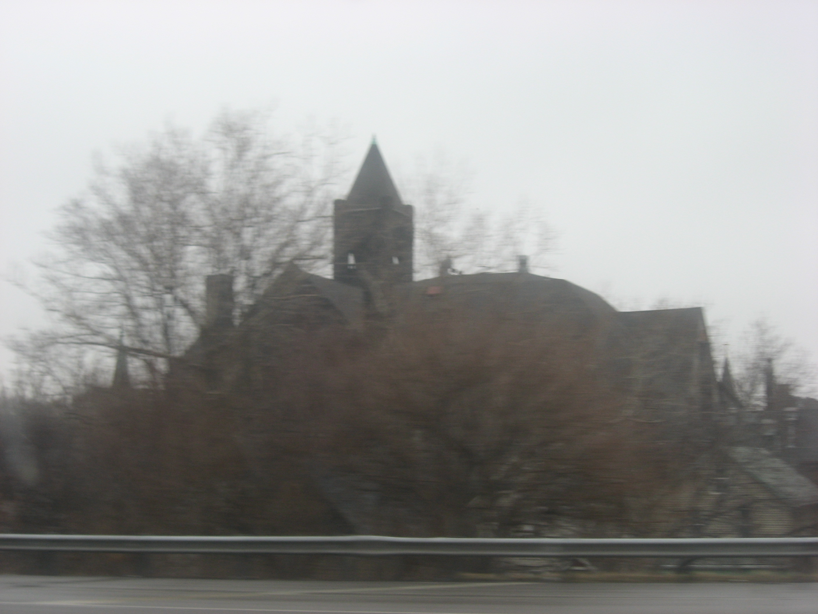 Rear (viewed from Interstate 90) of the Pilgrim Congregational Church, located at 2592 W. Fourteenth Street in Cleveland, Ohio, United States. Built in 1894, it is listed on the National Register of Historic Places.